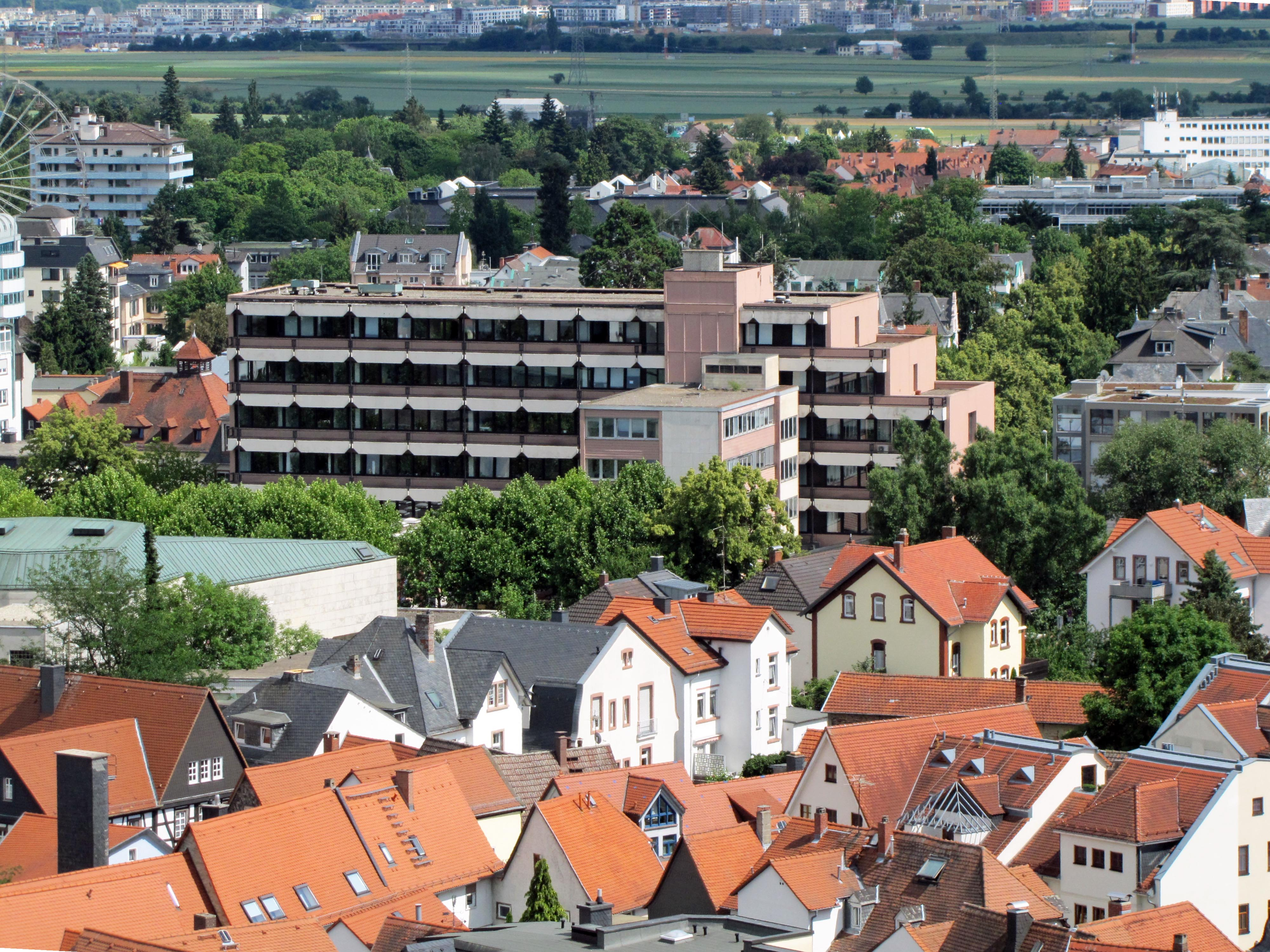 Town hall of Oberursel, Hochtaunuskreis, Germany.